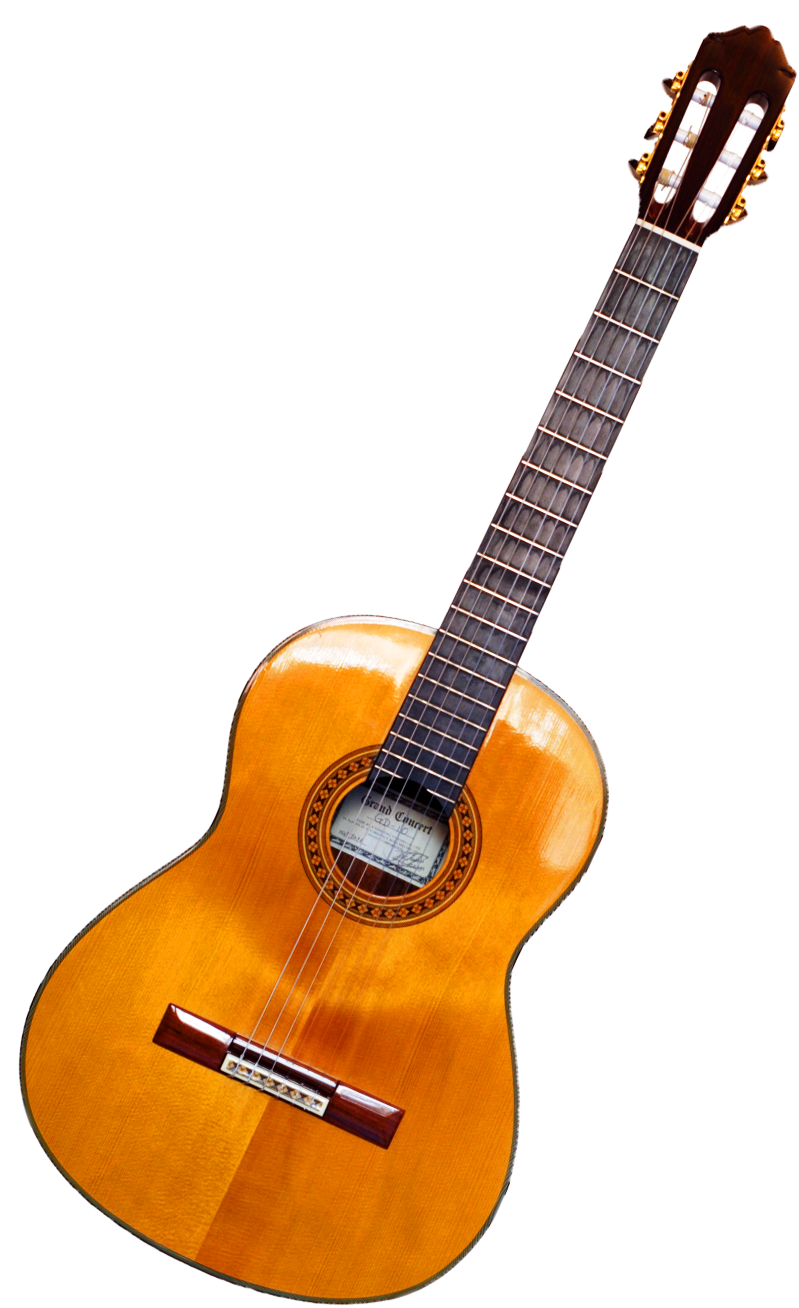 A classical guitar. Modified from a work by Martin Möller.